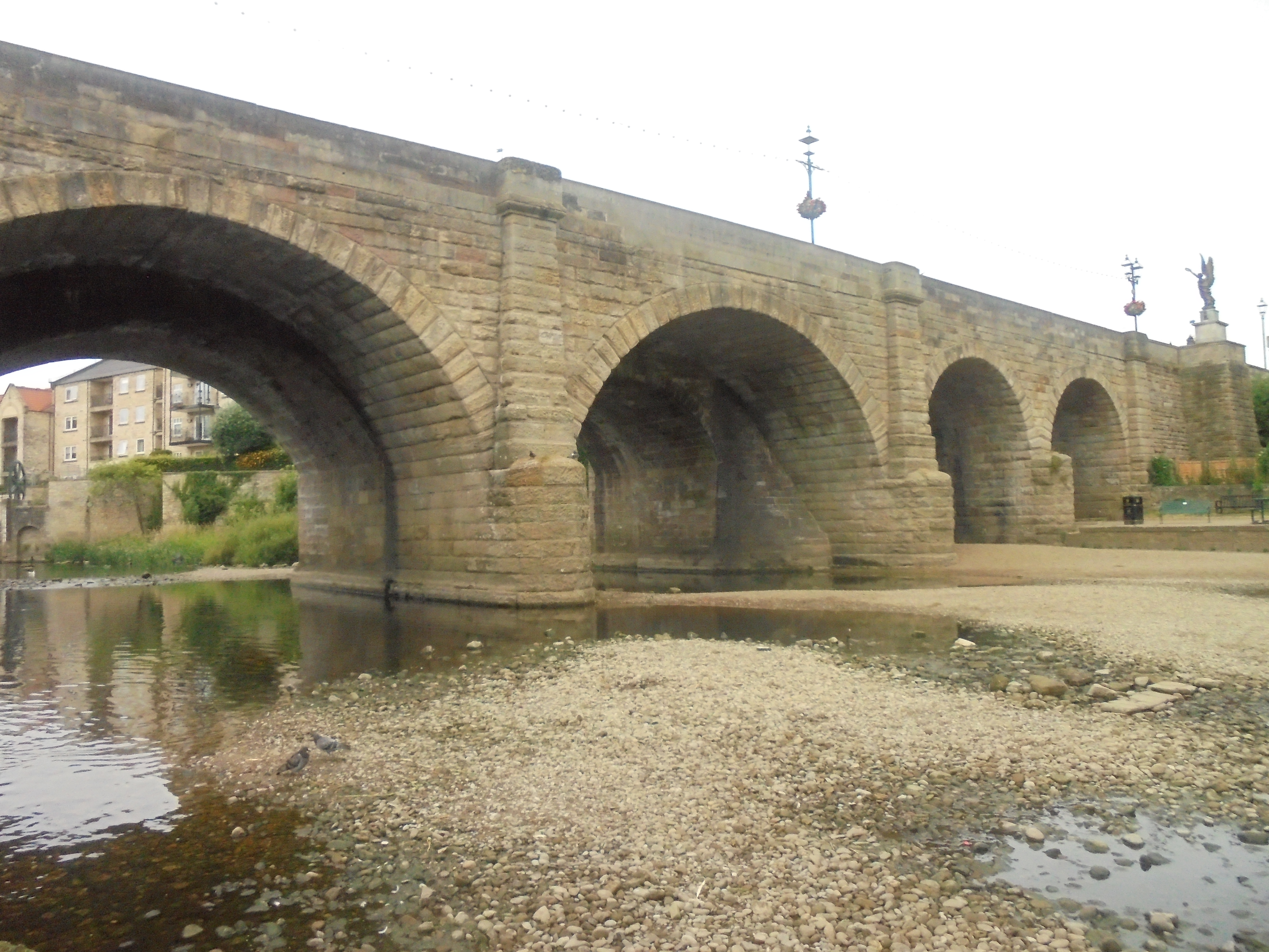 Bridge over a dried up River Wharfe in Wetherby, West Yorkshire. The weeks of hot weather and lack of rainfall have left the country looking rather dry and barren, reminiscent of 1976 and 1996. Taken on the evening of Monday the 9th of July 2018.